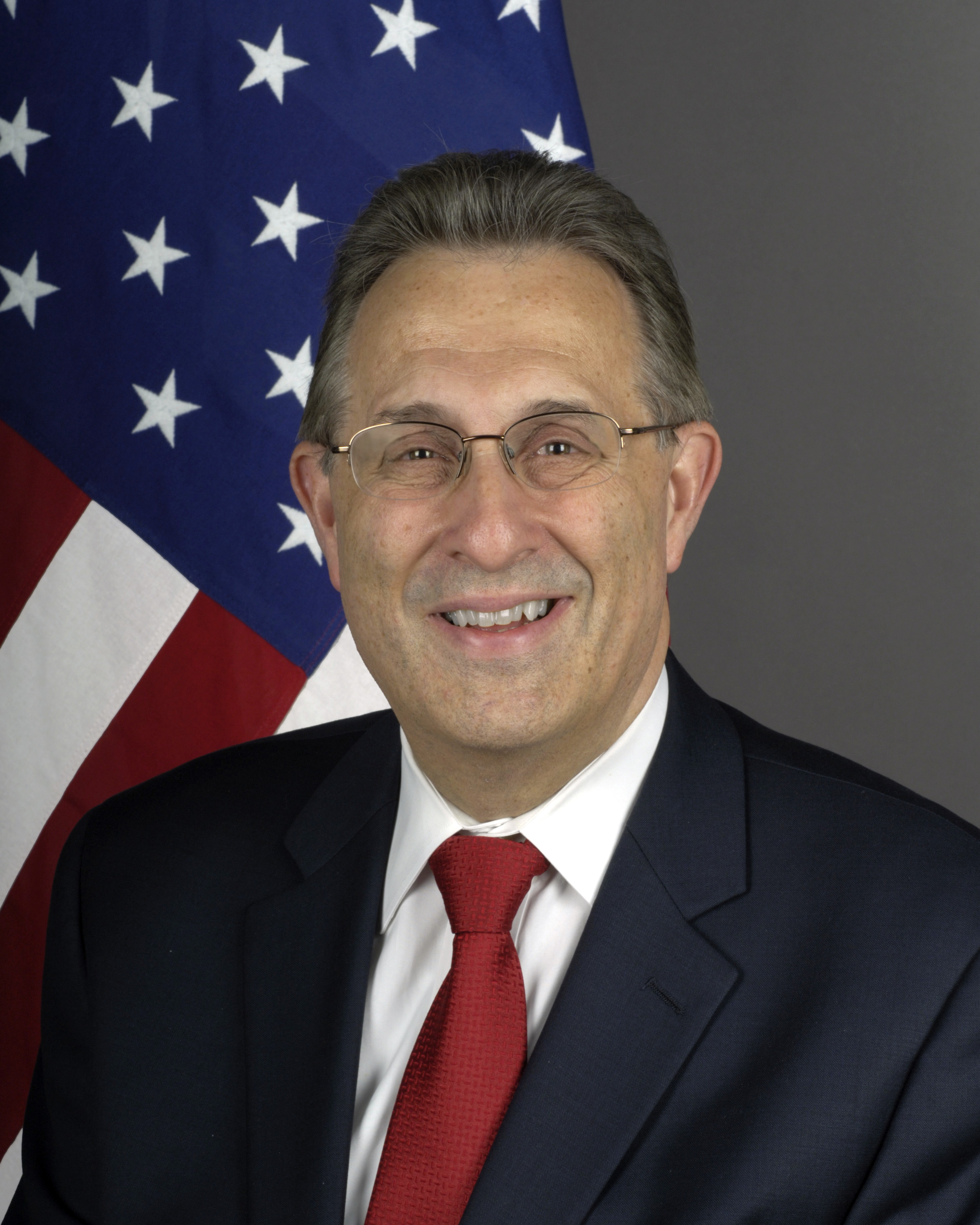 Earl Anthony Wayne. As of 2011 while the United States ambassador to Mexico.